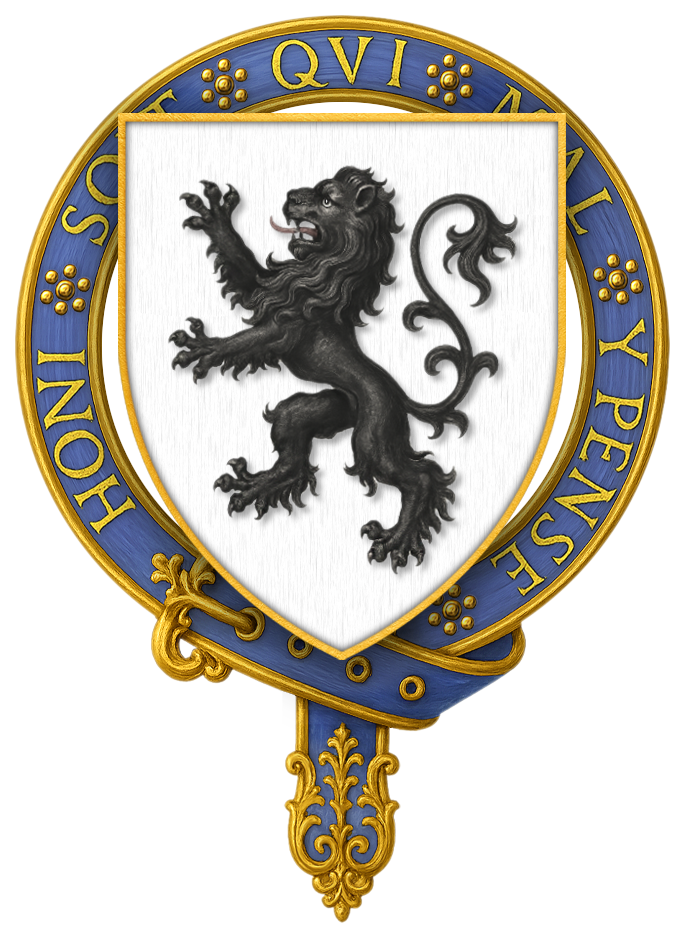 Coat of Arms of Sir Miles Stapleton, KG “ Sir Miles Stapleton, one of the Founders… Arms: Argent, a lion rampant Sable. ” BELTZ, George Frederick, Memorials of the Order of the Garter from Its Foundation to the Present Time, London: William Pickering, 1841.